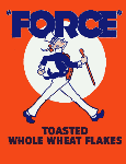 Image from box of Force Cereal, depicting mascot "Sunny Jim"